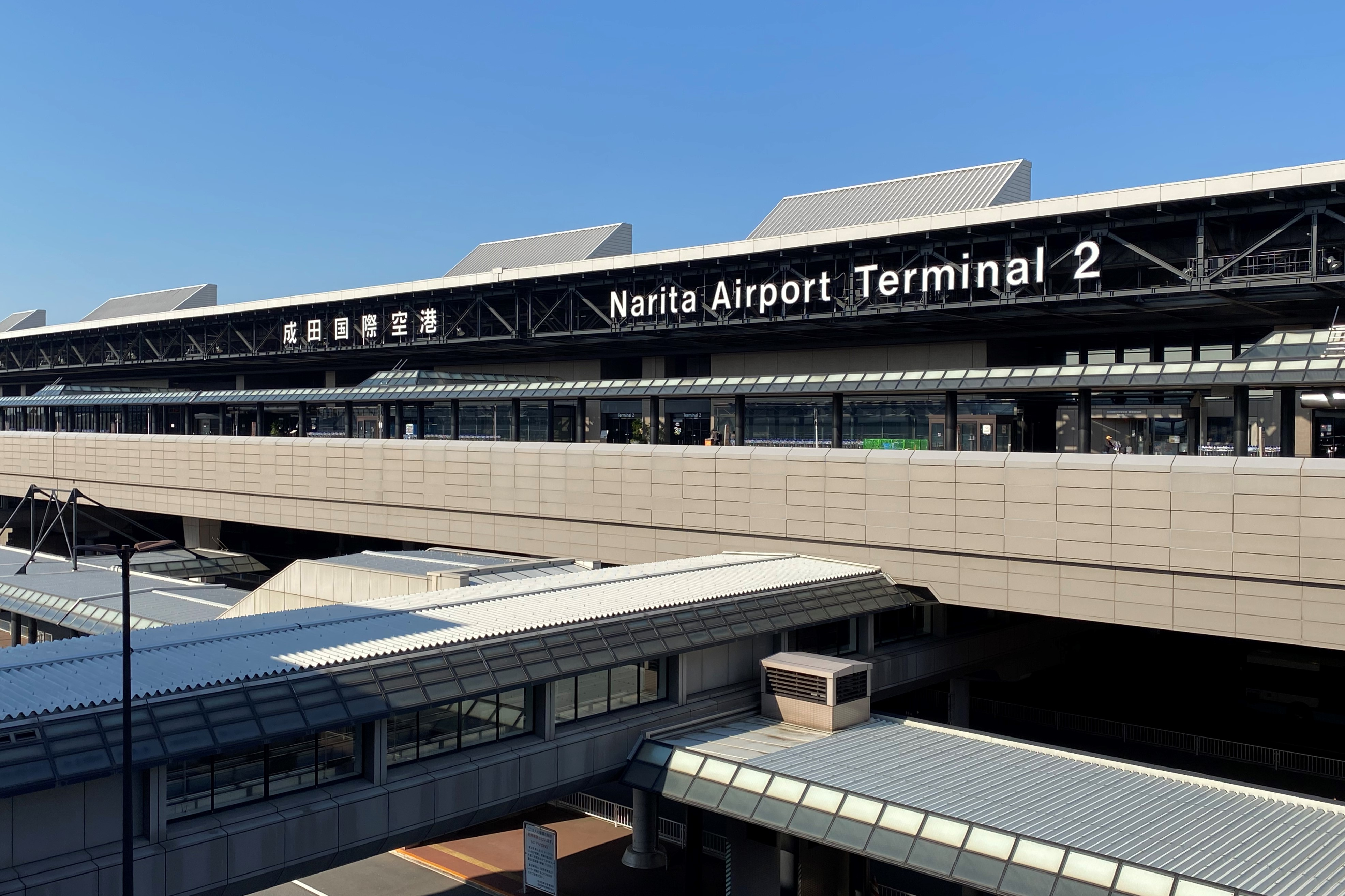 The curbside of Narita Airport T2 seen from a car park.